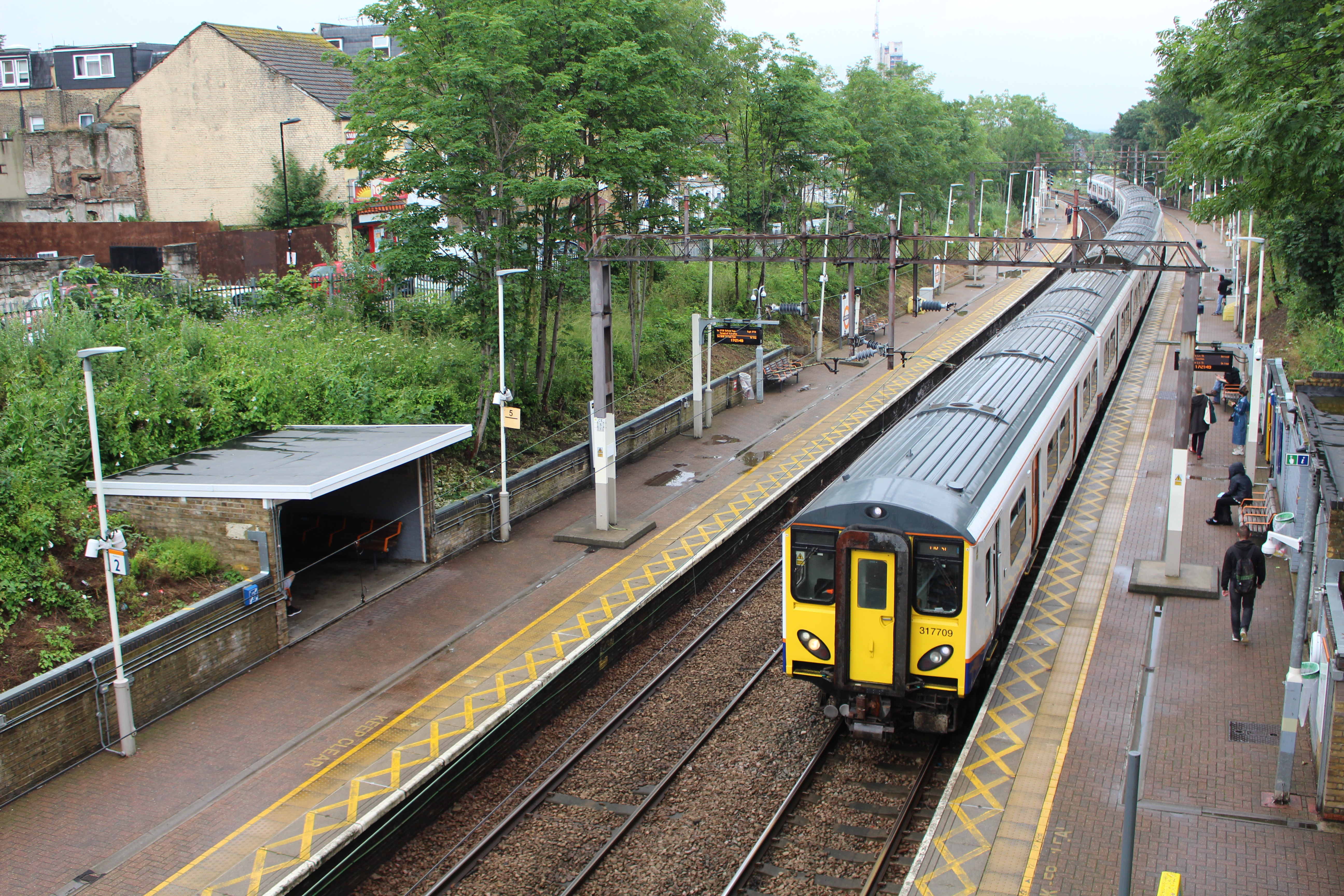 A train.